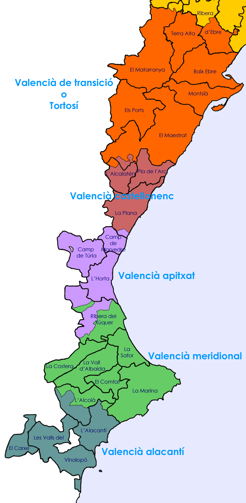 Subdialects of Valencian dialect (in catalan). Complement of dialectal map of Catalan Language.